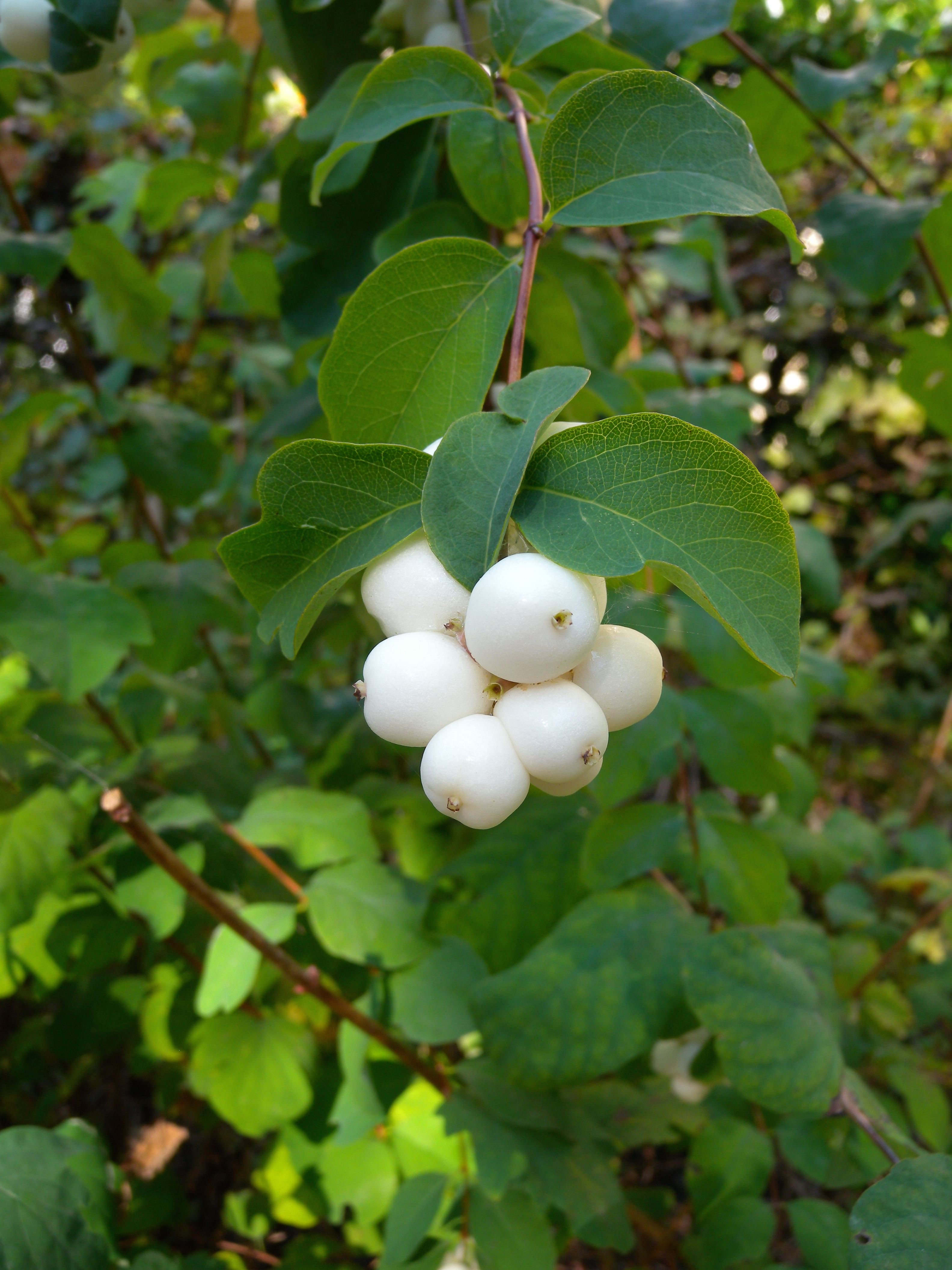 Fruits of Symphoricarpos albus (Caprifoliaceae); Bern, Switzerland